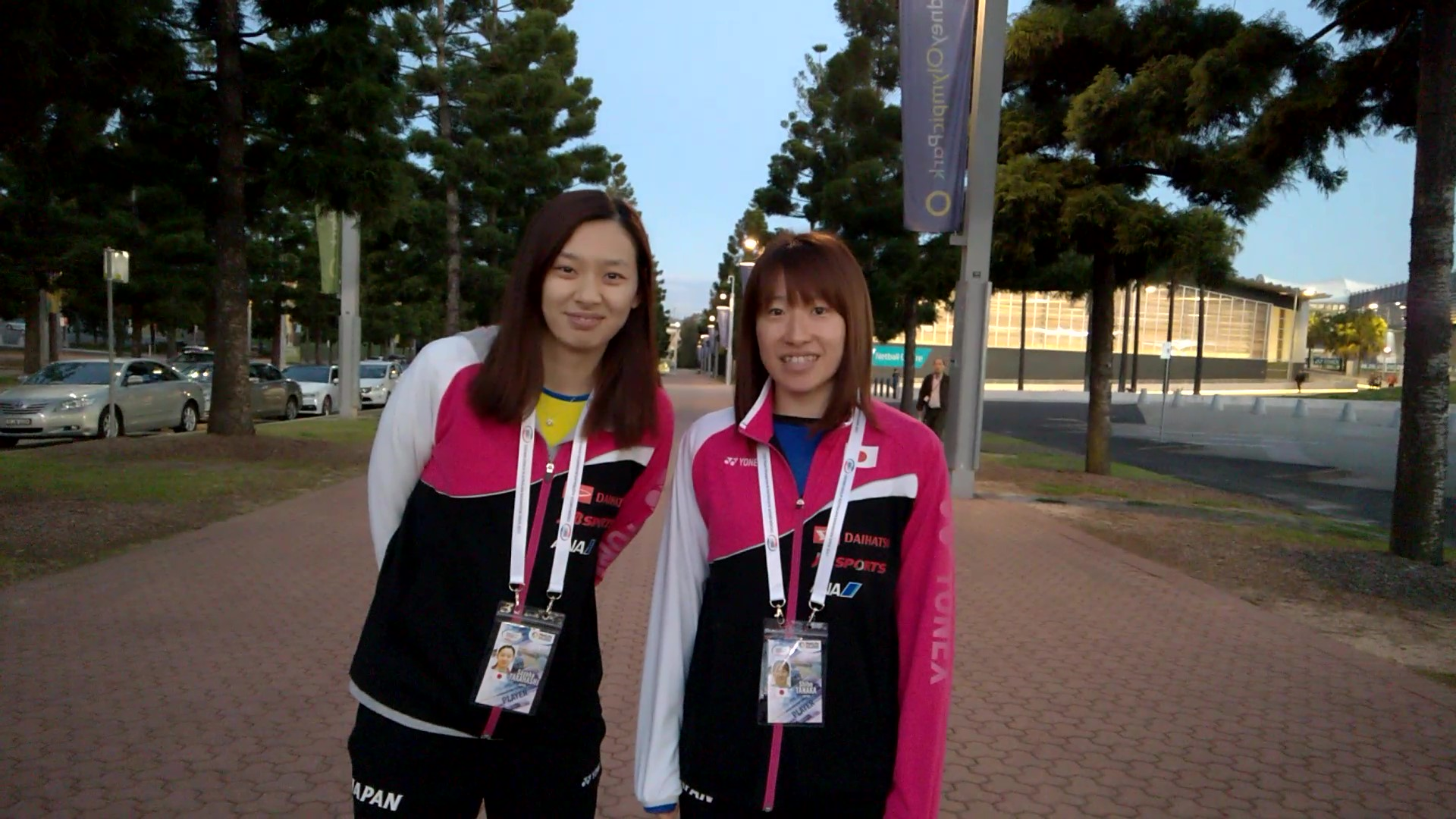 Sayaka Takahashi (left) and Shiho Tanaka (right) at Australia Open Super Series 2017